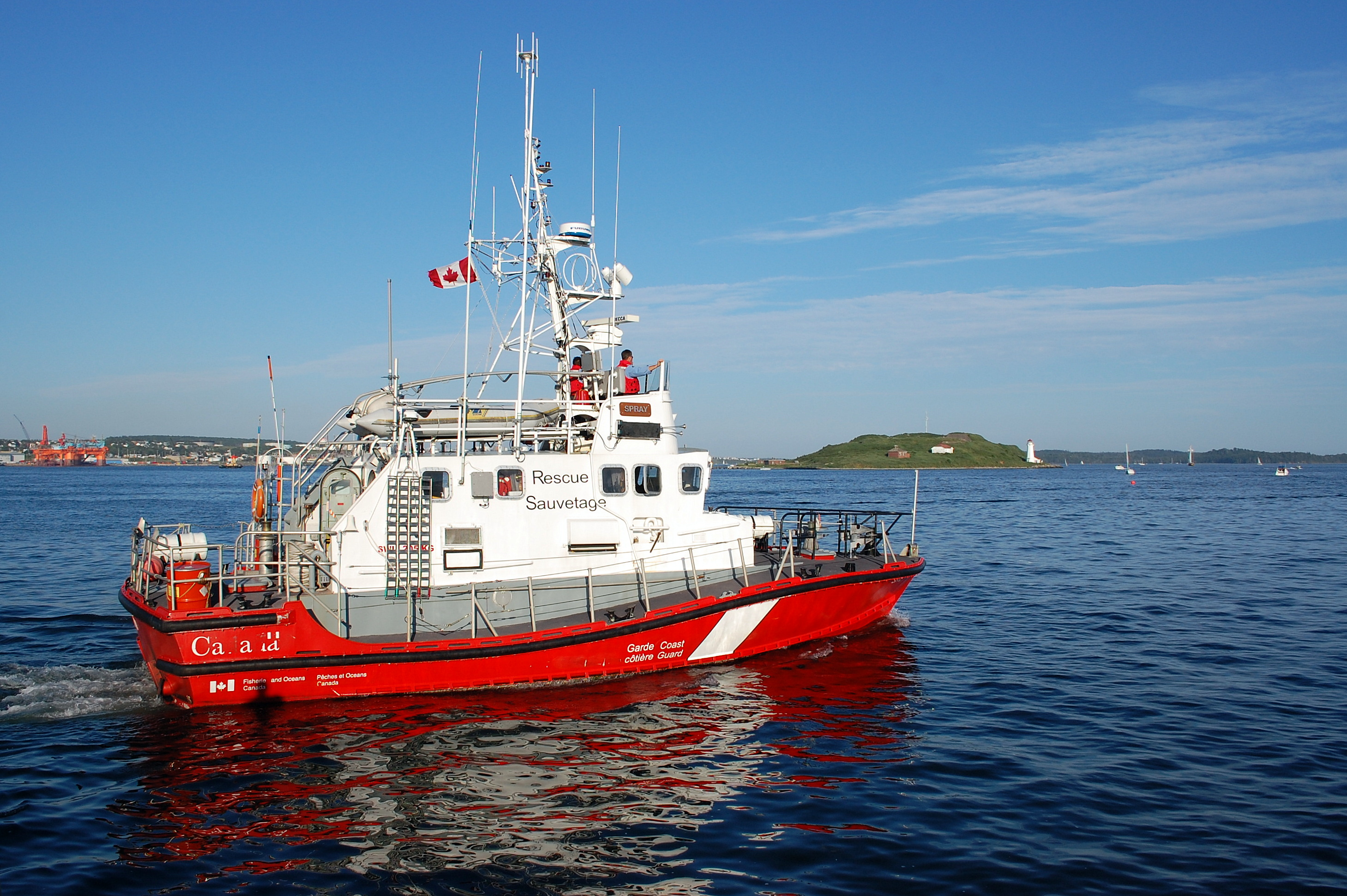 CCGS Spray, a Canadian Coast Guard Arun-class lifeboat, seen in July 2009 near Bishop's Landing on the Halifax waterfront.